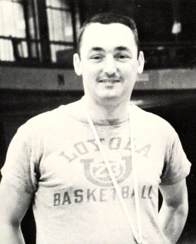 Loyola University of Chicago men’s basketball coach Jerry Lyne from the 1963 “Loyolan” yearbook.